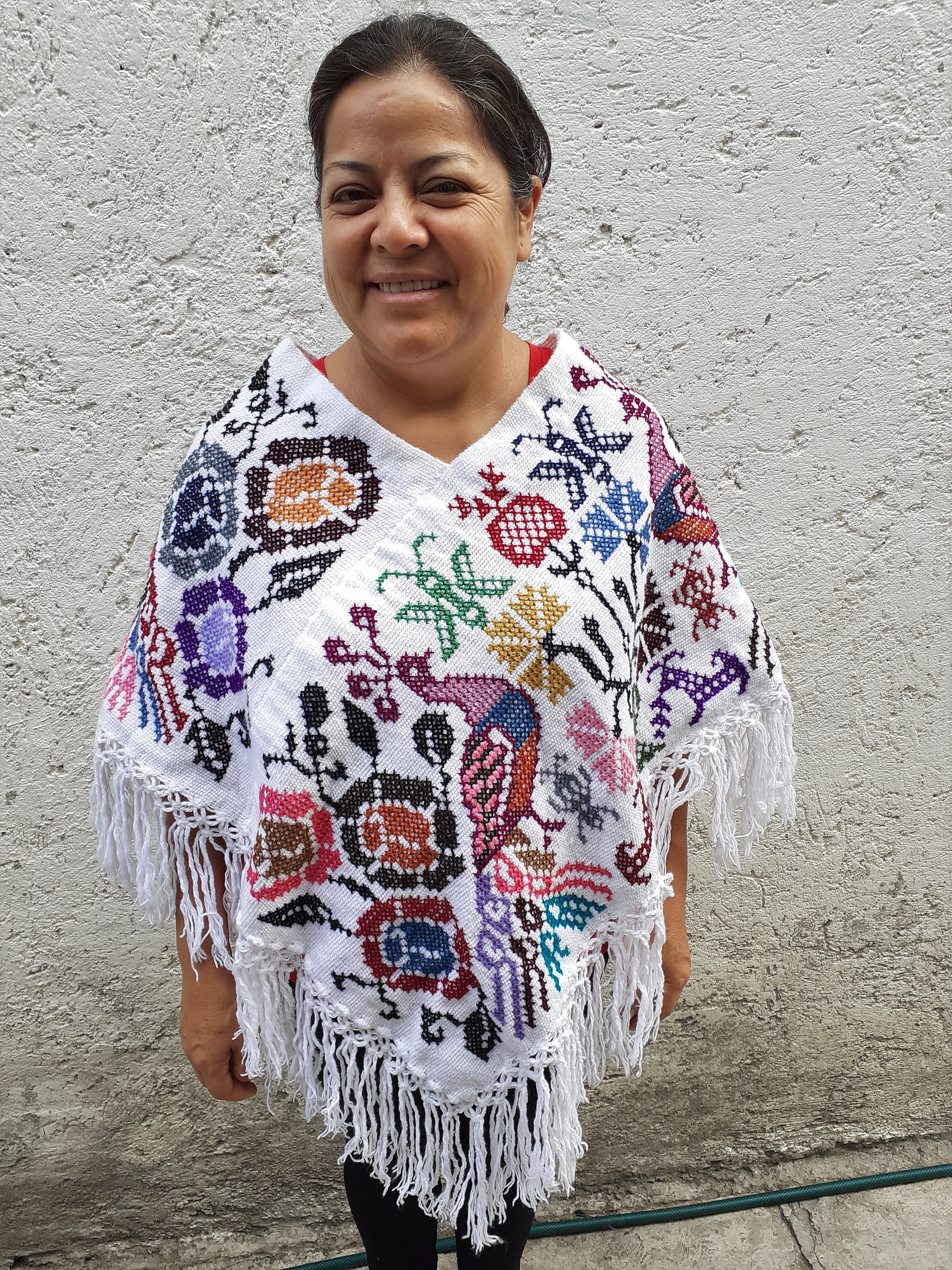 Mexican woman wearing a quexquémitl made in Puebla, Mexico.